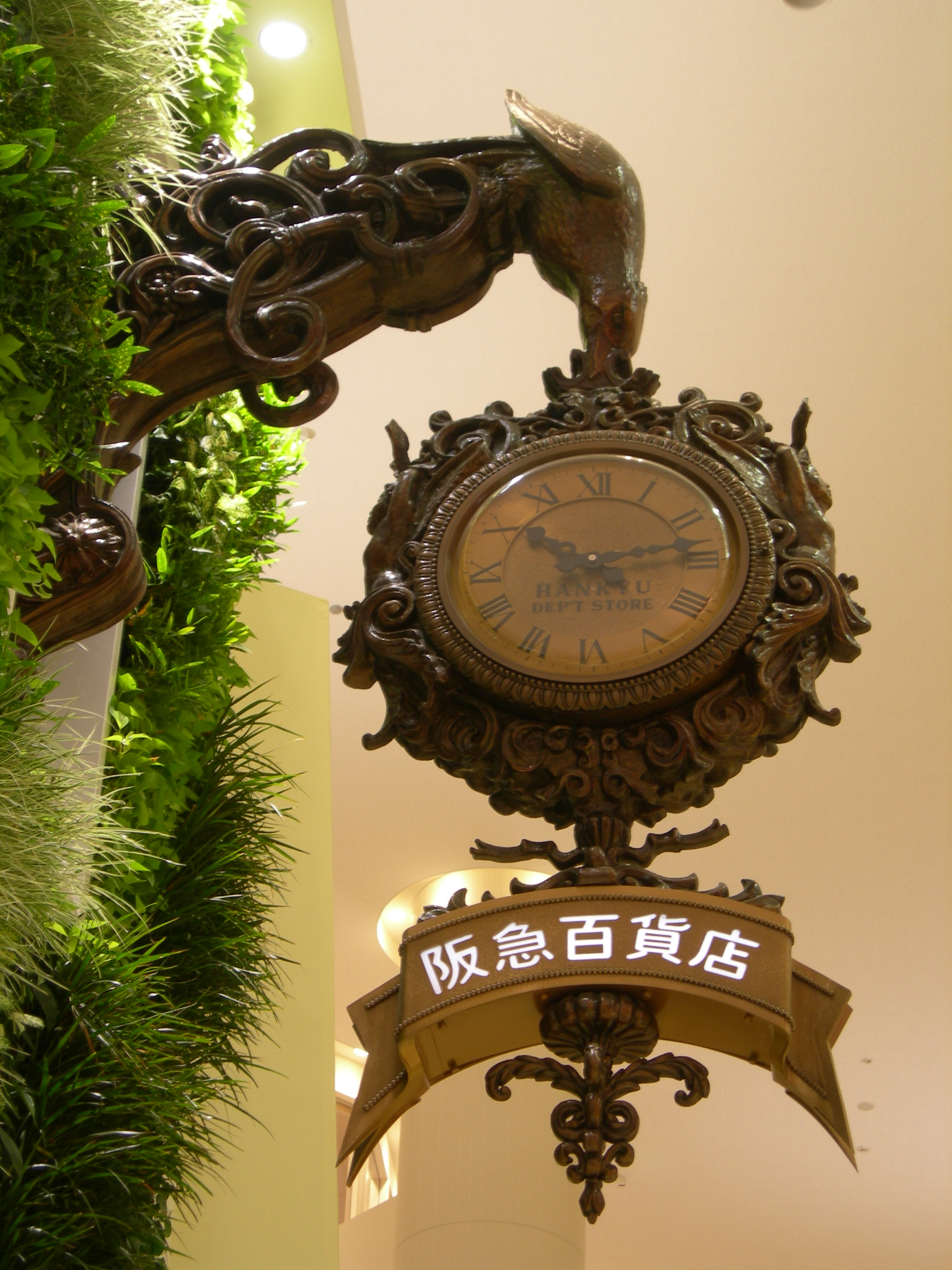 Big Clock, Hankyu Department Stores Umeda main store.